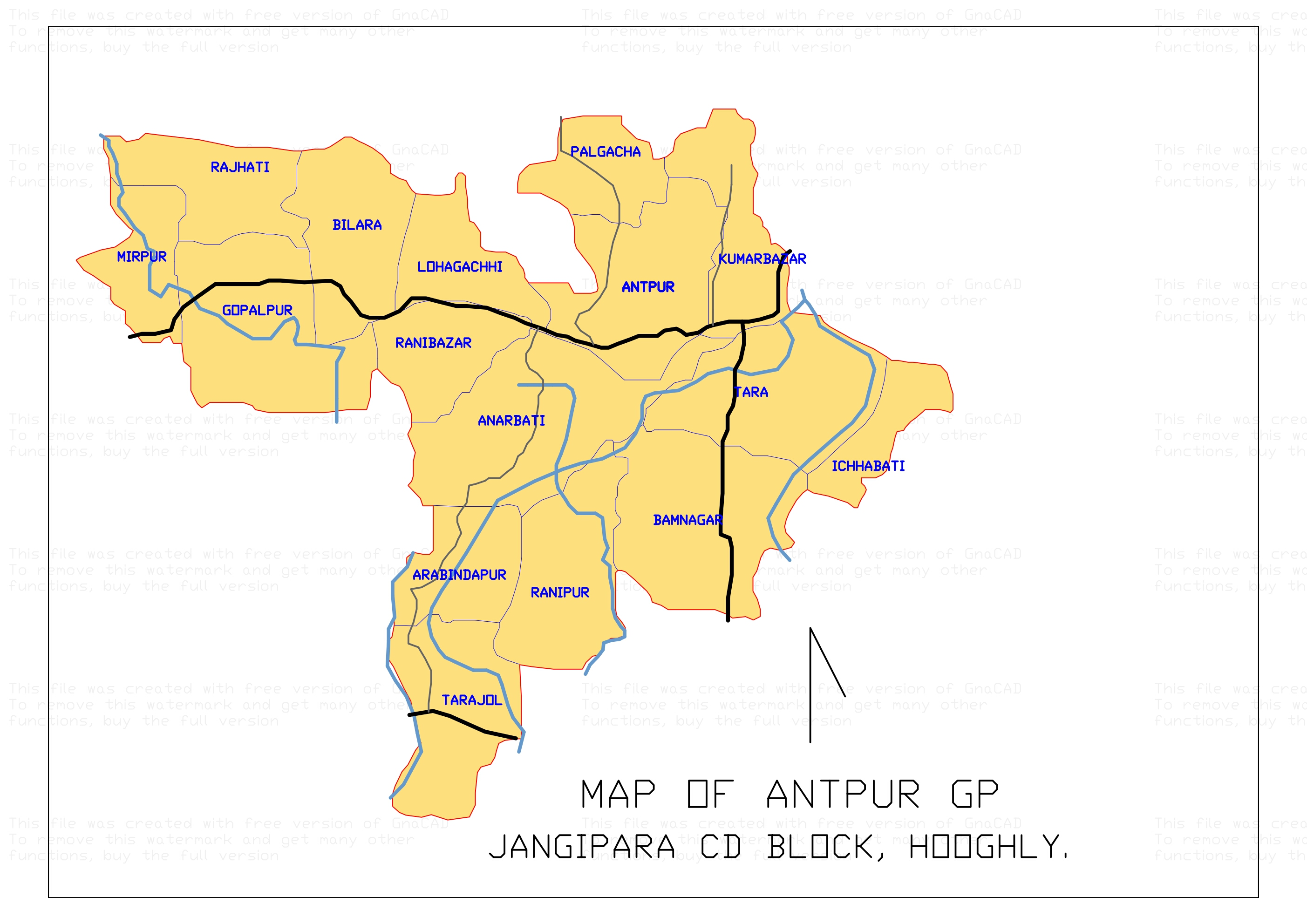 Map of Antpur GP showing Mouzas, road and Revar , Jangipara CD block, Hooghly District, West Bengal,India .